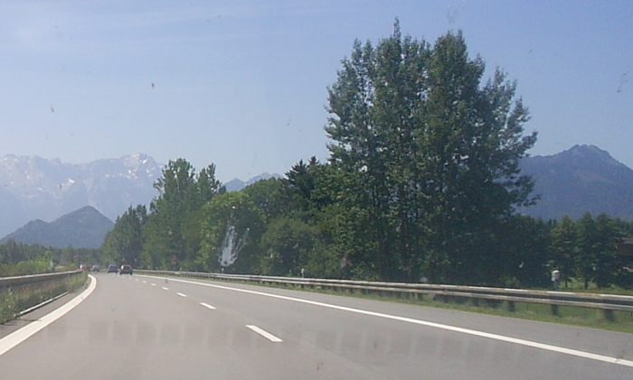 On the A 95 towards Garmisch-Partenkirchen in Bavaria, Germany with the Alps in background